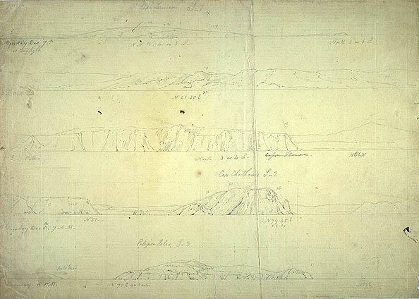 South Coast: Cape Leeuwin, Cape Chatham and Eclipse Isles, an November 1801 pencil field sketch by William Westall. It depicts several coastal features on the south coast of Western Australia. This sketch would later be worked up into a watercolour entitled View on the South Coast of Australia, and an 1814 engraving entitled Views on the South Coast of Terra Australis.